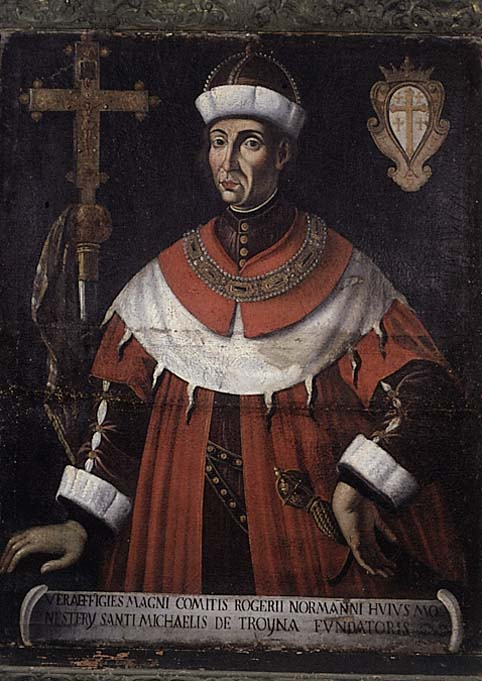 Portrait of Roger I of Sicily